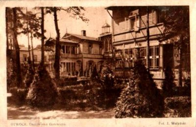 Sanatorium Gurewicza w Otwocku w okresie miedzywojennym, egzemplarz stylu architektonicznego zwanego Świdermajer z Mazowsza